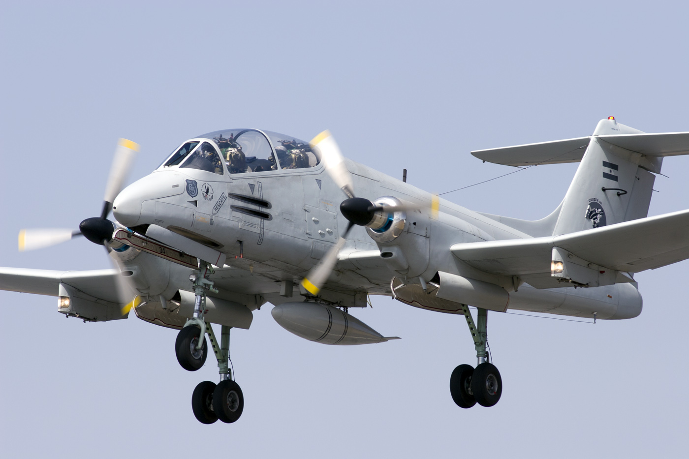 Three Pucarás attended Cruzex 2006 at Anápolis (Brazil). They only wore their serial numbers inside the nose wheel doors. This is A-534.